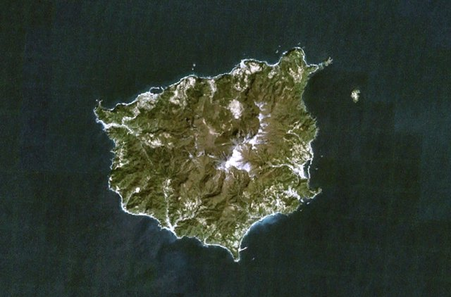 Ulleung island from above (NASA image)